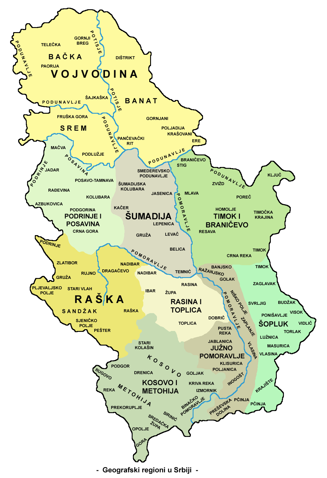 Map of geographical regions in Serbia (Serbian language version).